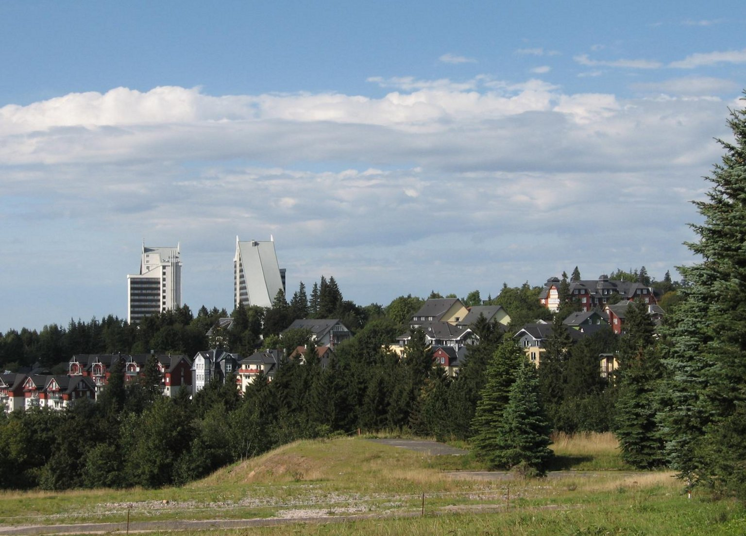 Stadtansicht von Oberhof / Thüringer Wald; Reiseinfos zu Oberhof siehe Wikivoyage - Oberhof